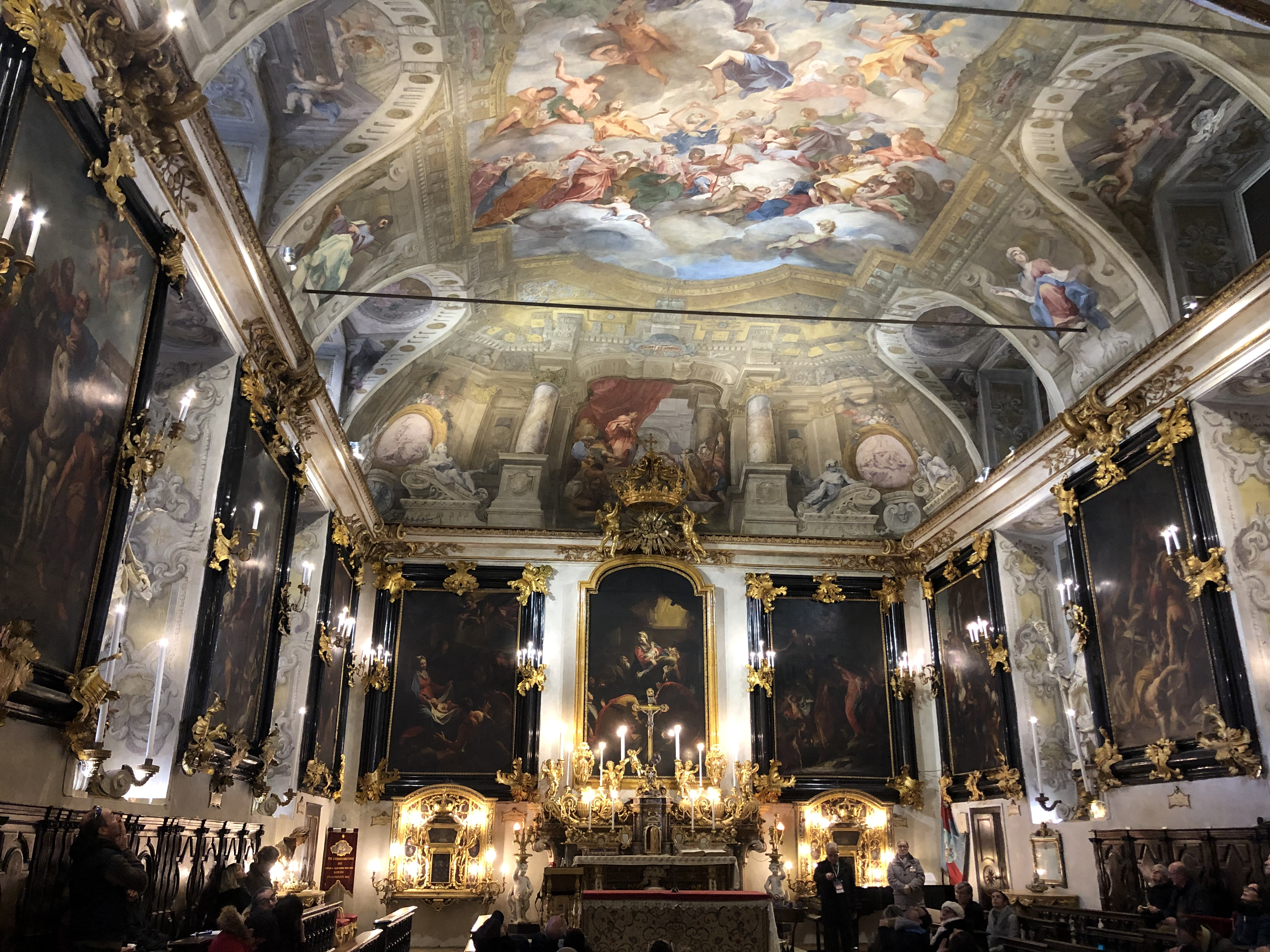 Torino